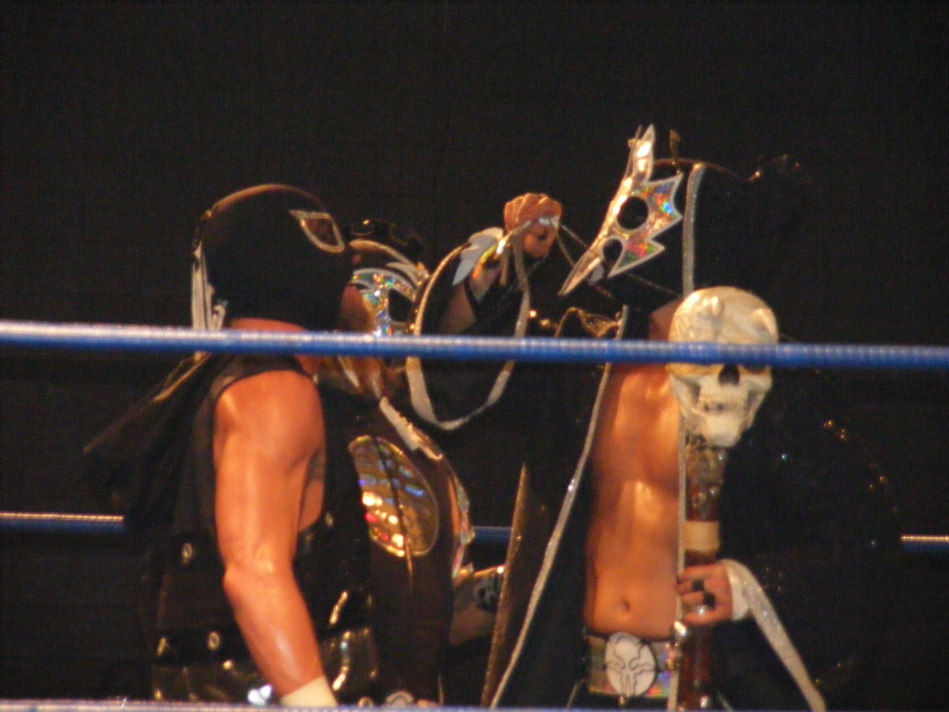 Professional wrestlers UltraMantis Black, Delirious and Crossbones at a Chikara show on May 24, 2009